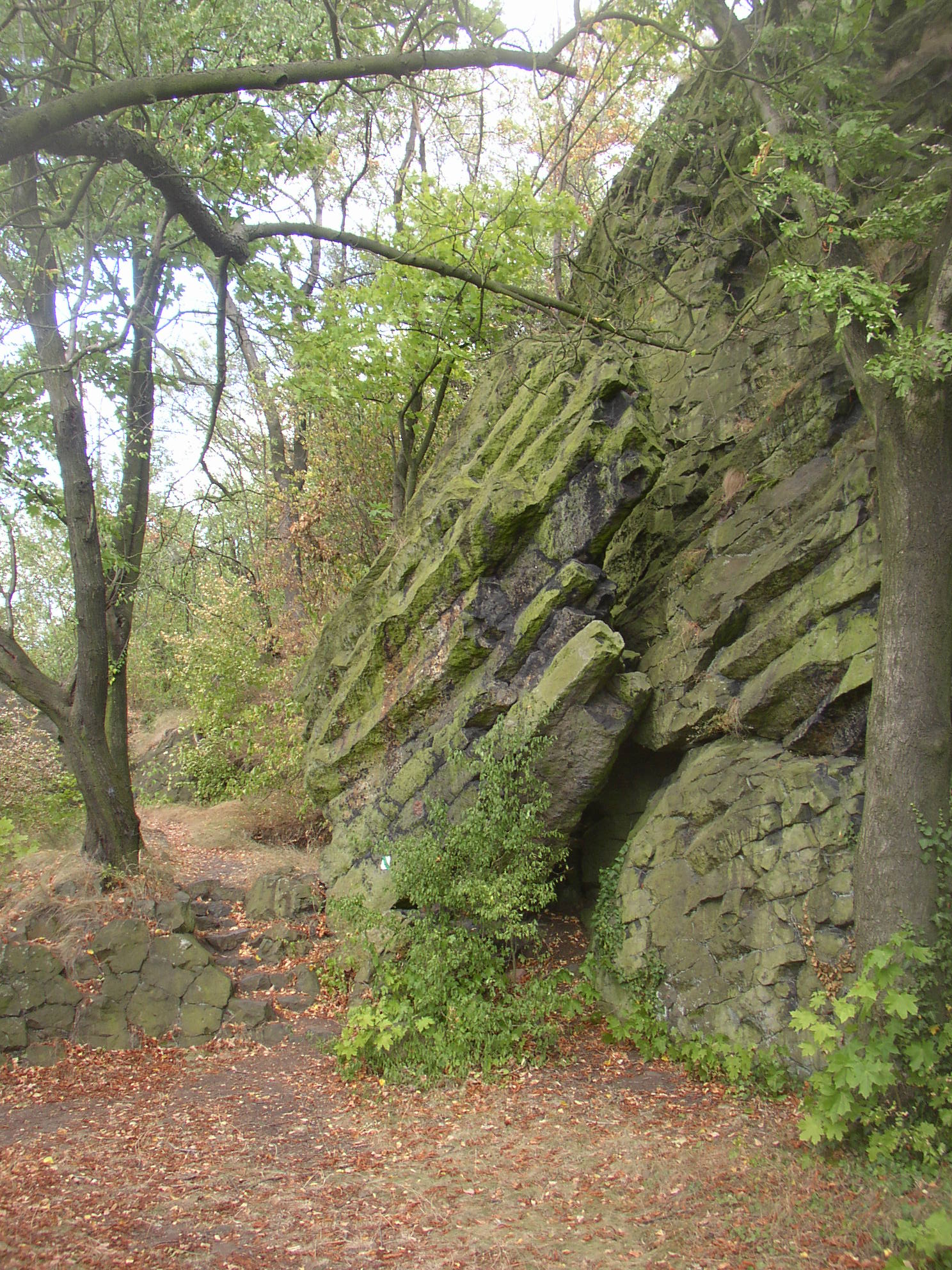 Slánská hora hill in town of Slaný, Kladno District, Czech Republic. Basalt columns in western slopes of the hill.